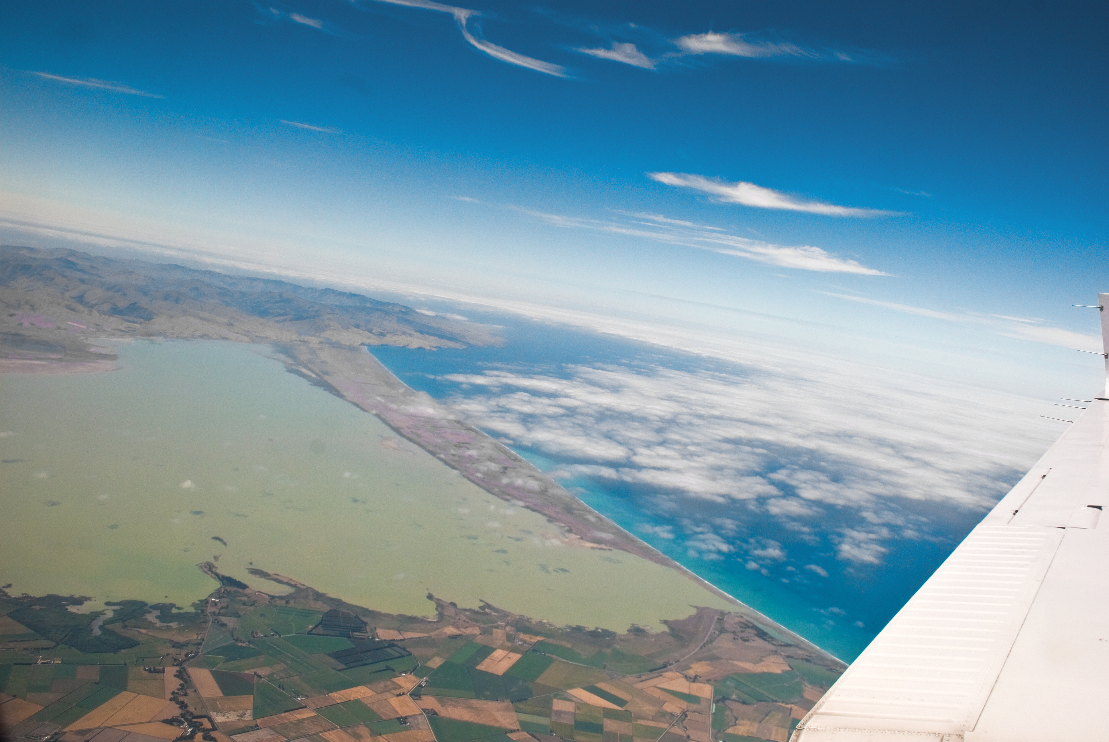 Lake Ellesmere. Canterbury region of the South Island of New Zealand